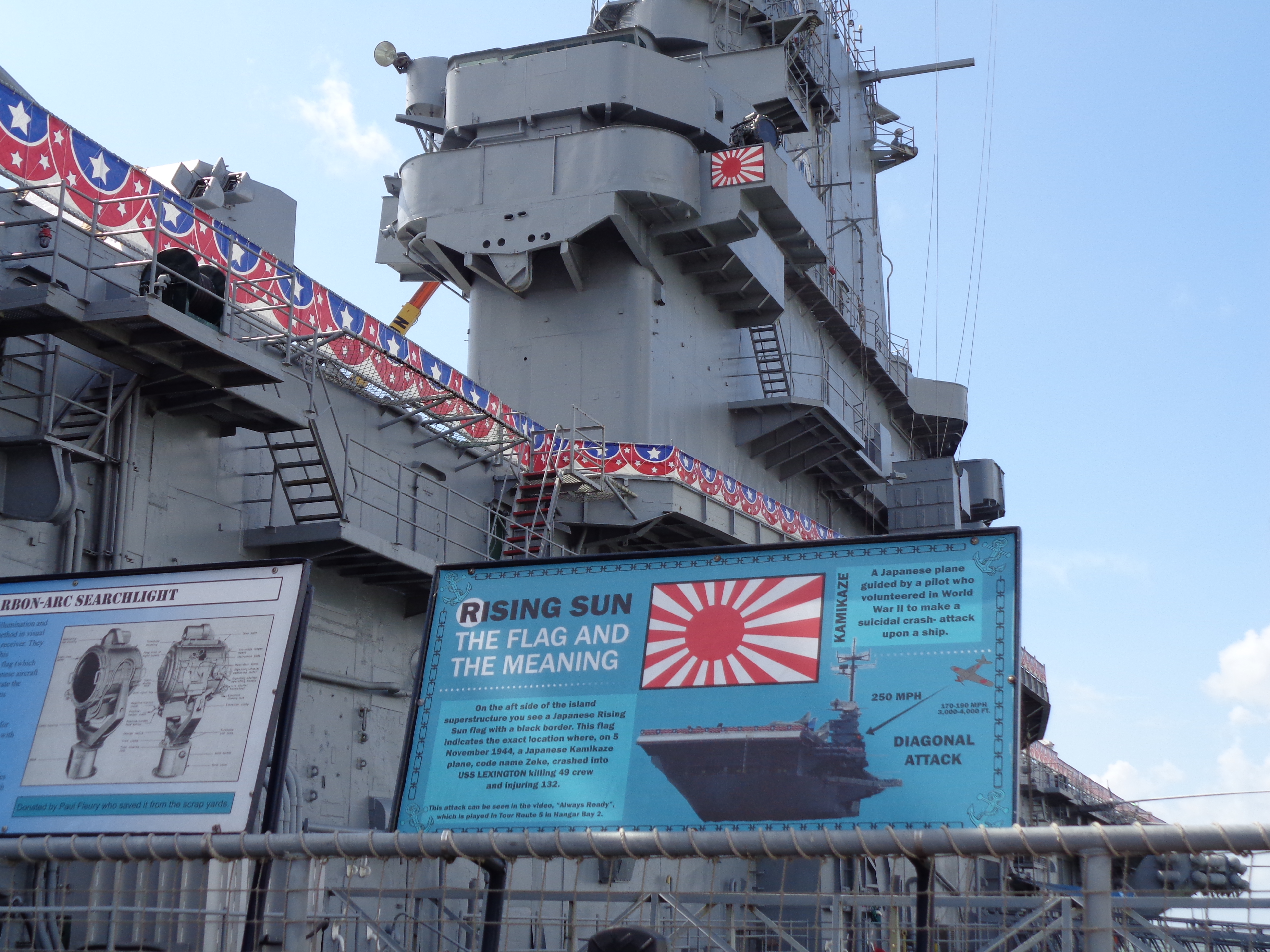 The site of impact from a Kamikaze plane on Nov 5th 1944.